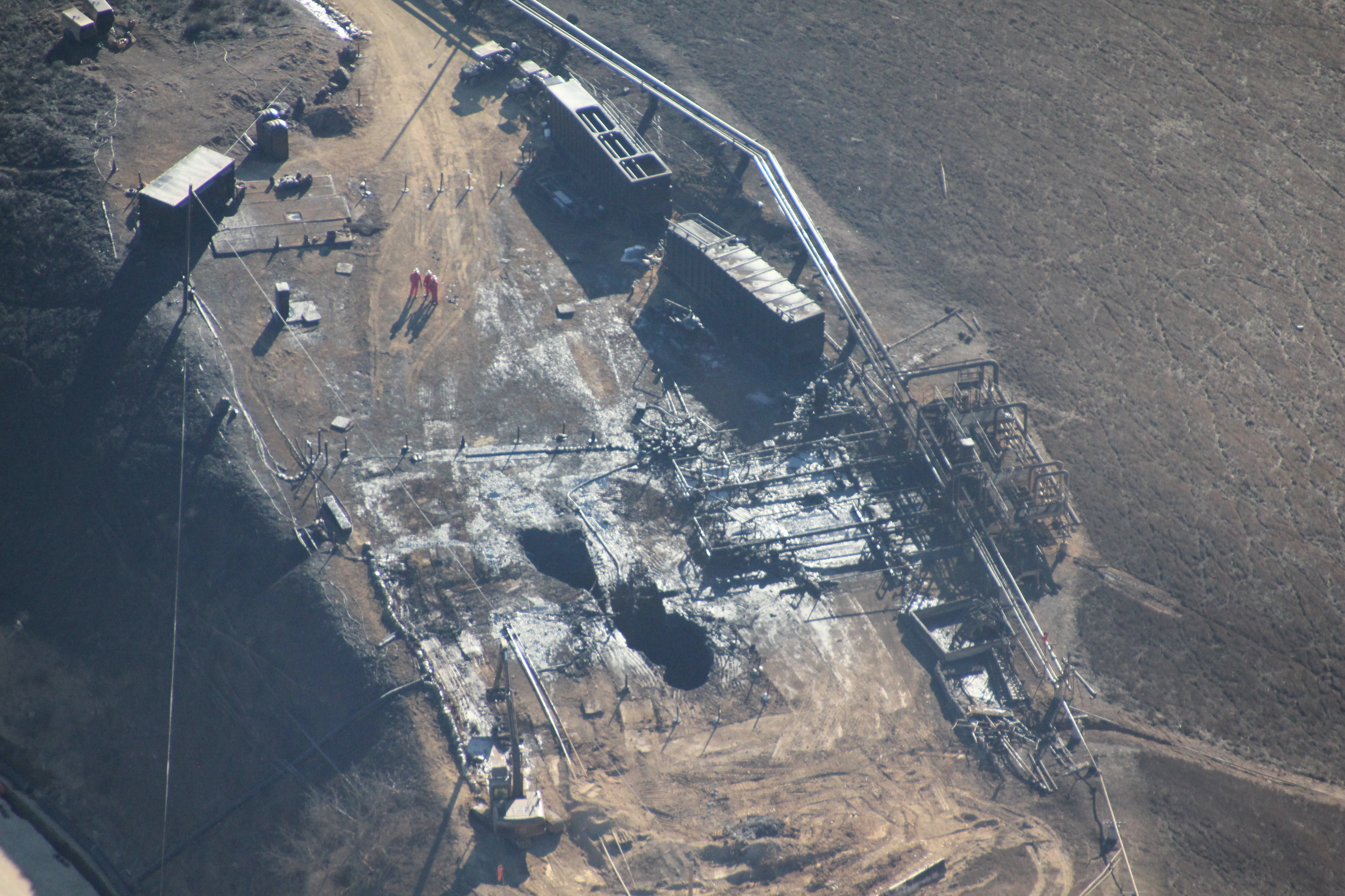 Aerial view of the Aliso Canyon gas leak, two months after the incident began.